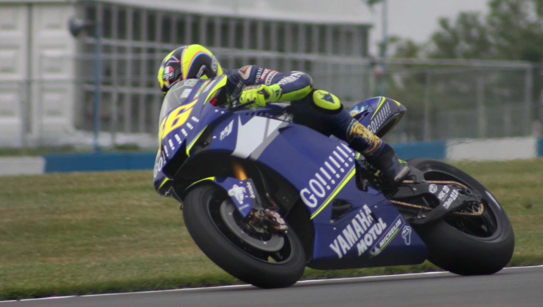 Valentino Rossi, riding his Gauloises Yamaha at the 2005 British Grand Prix in Donington Park.